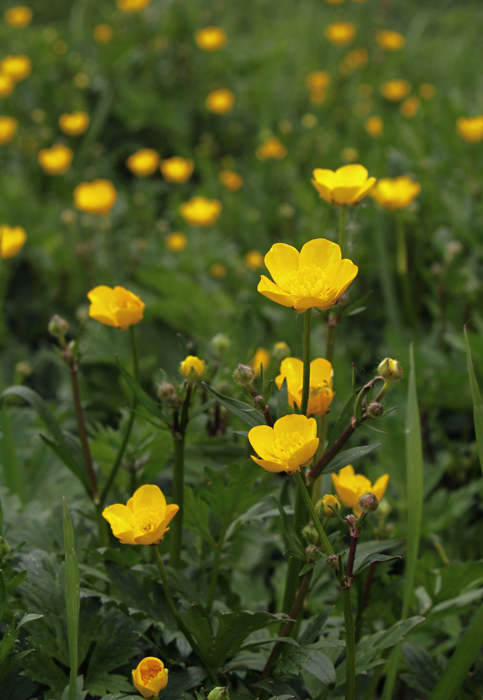 Creeping buttercup (Ranunculus repens)